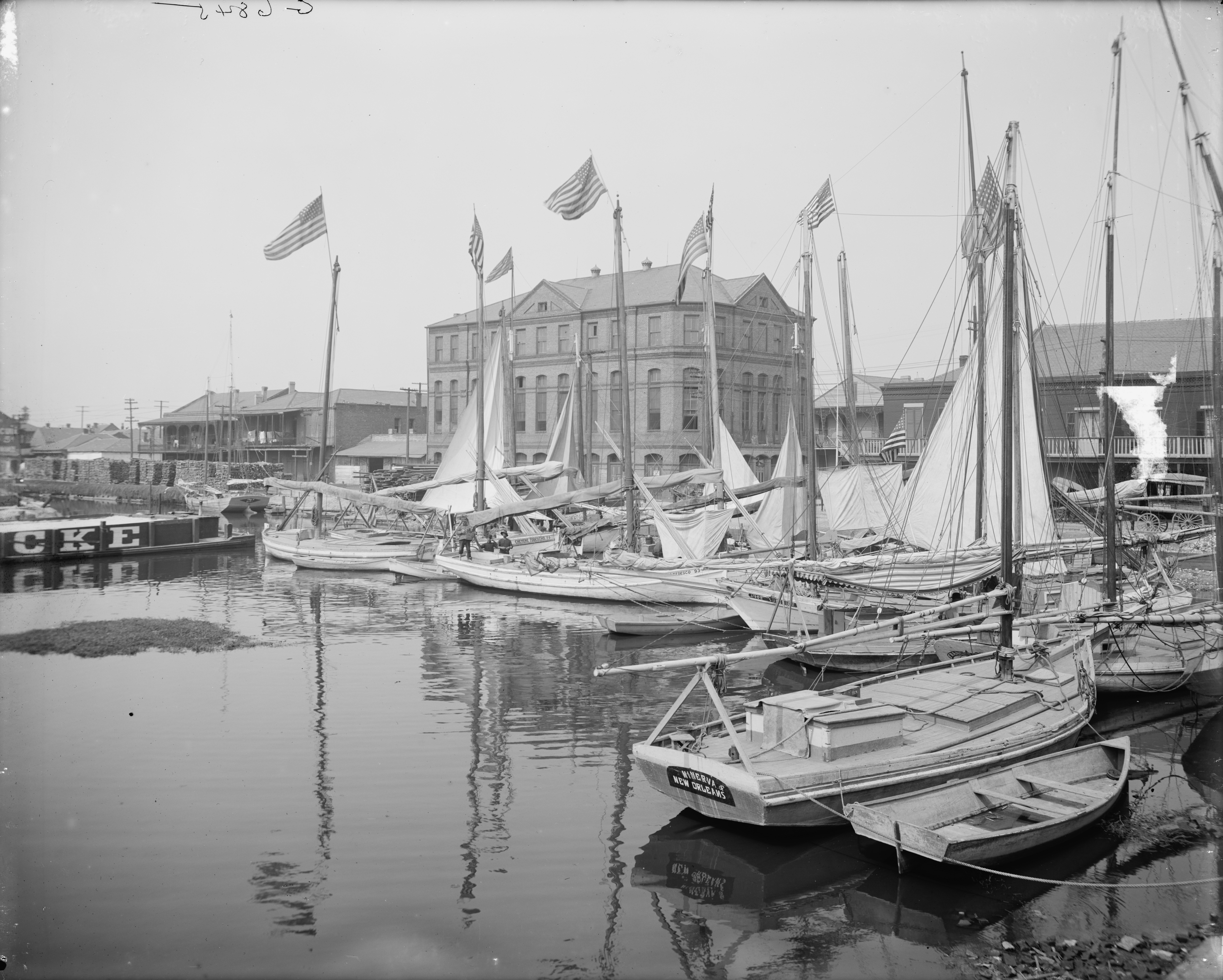 New Orleans: Oyster and charcoal luggers in the old basin (Carondelet Canal) in the early 20th century